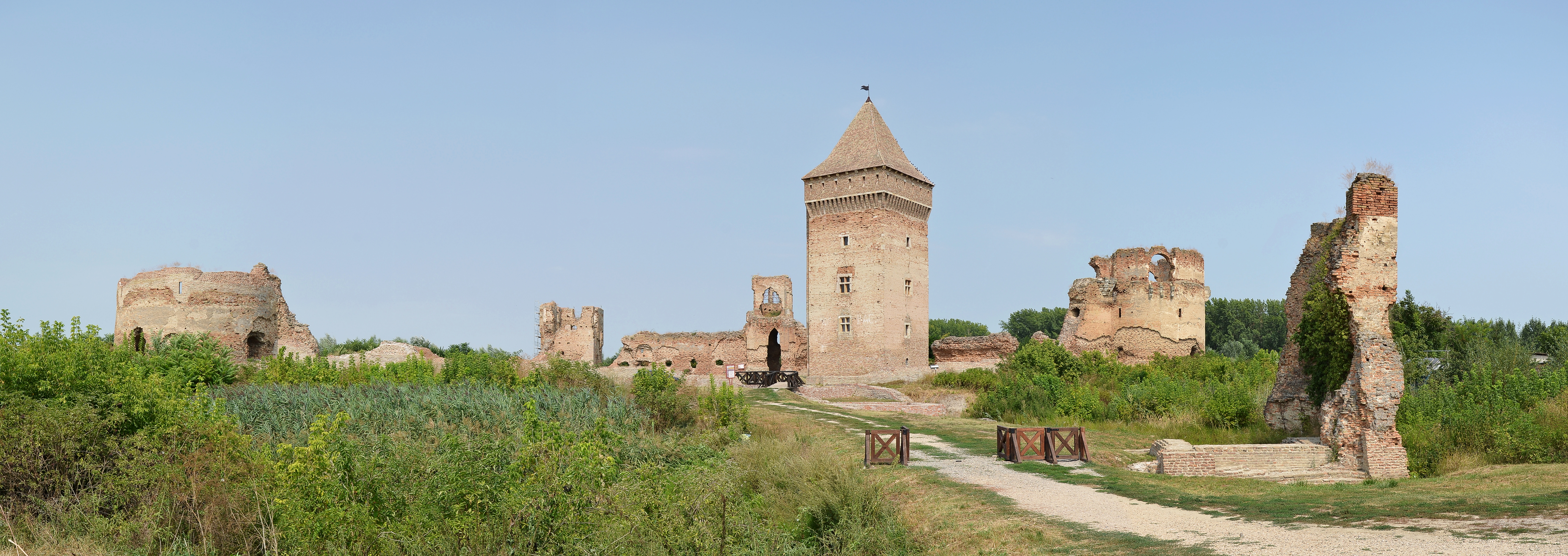 Fortress in Bač (Bács), Vojvodina